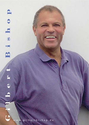 Official autograph card of Gilbert Bishop